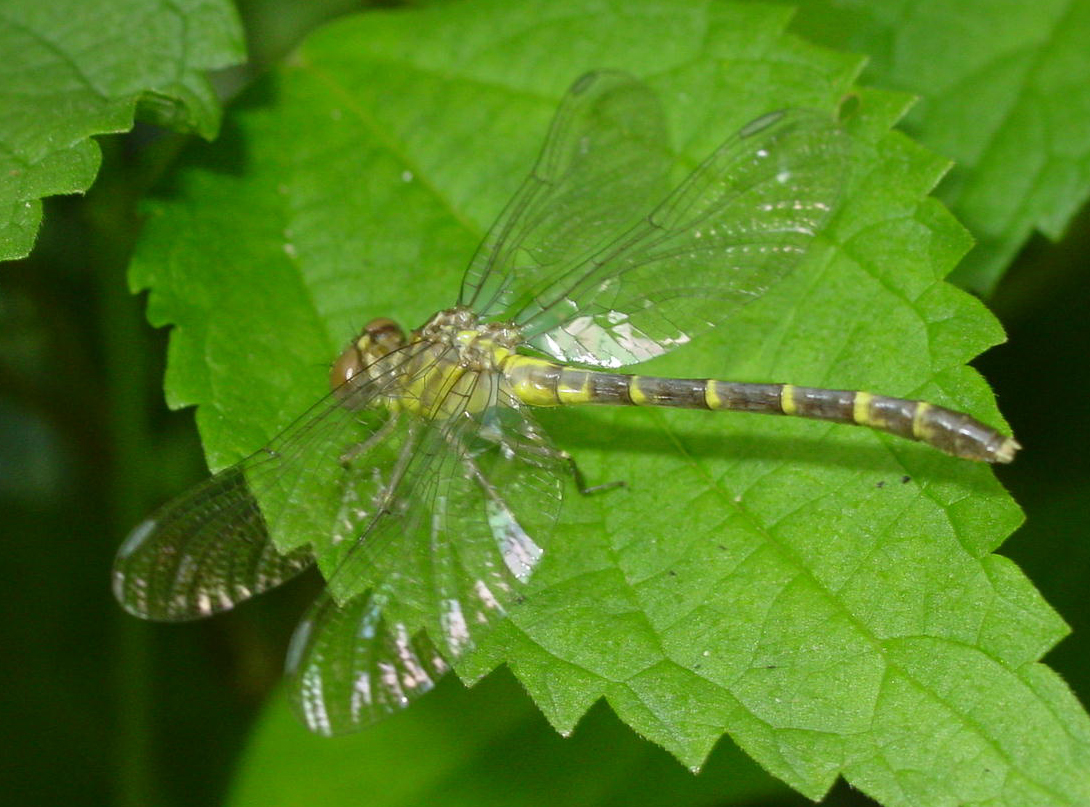 Least Clubtail (Stylogomphus albistylus) teneral, Pope County, AR, 6-30-03.